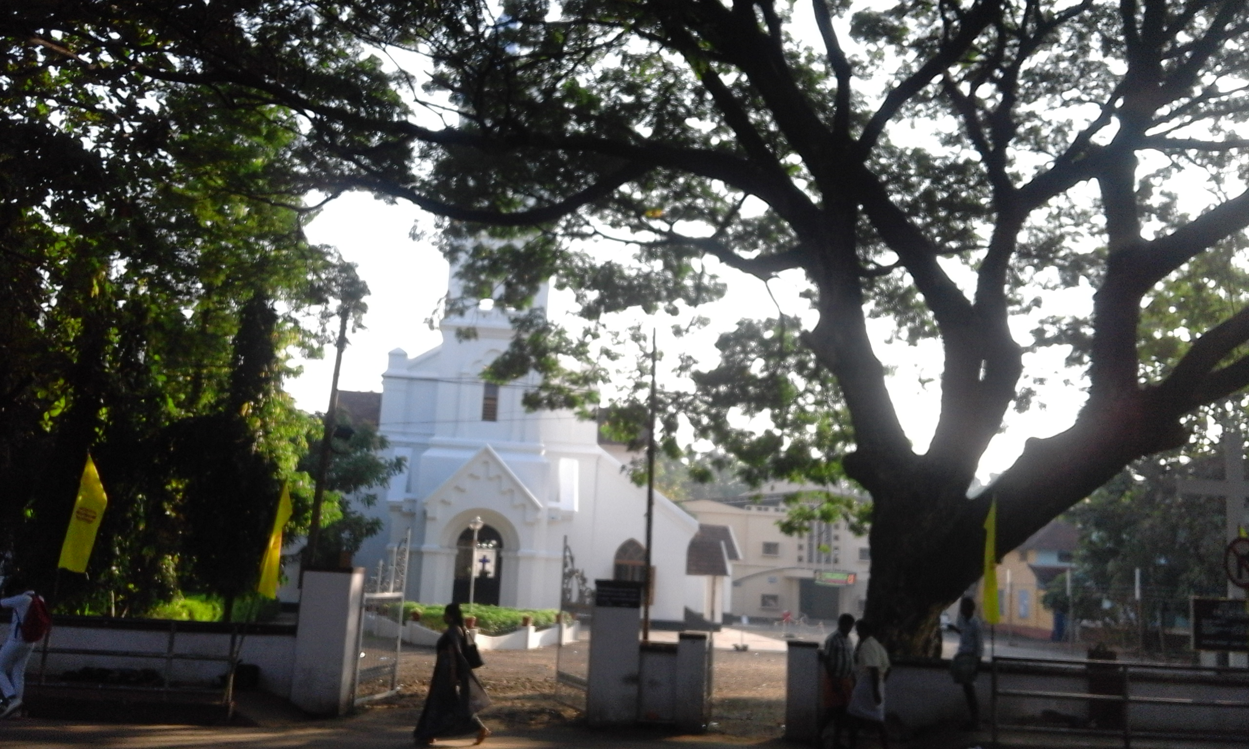 Christian church at Mananchira pond, Kozhikode, India.